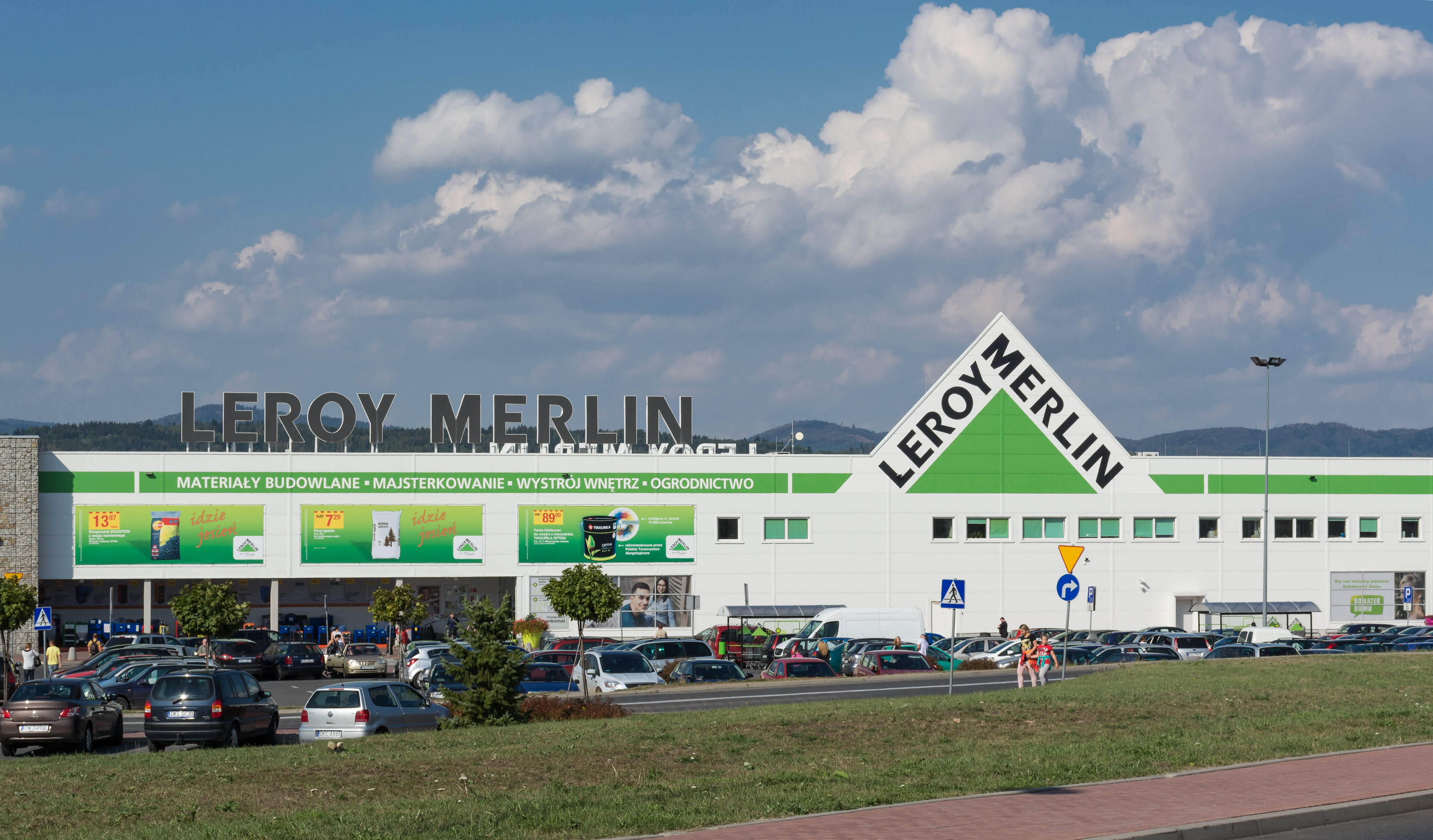 Hypermarket Leroy Merlin in Kłodzko